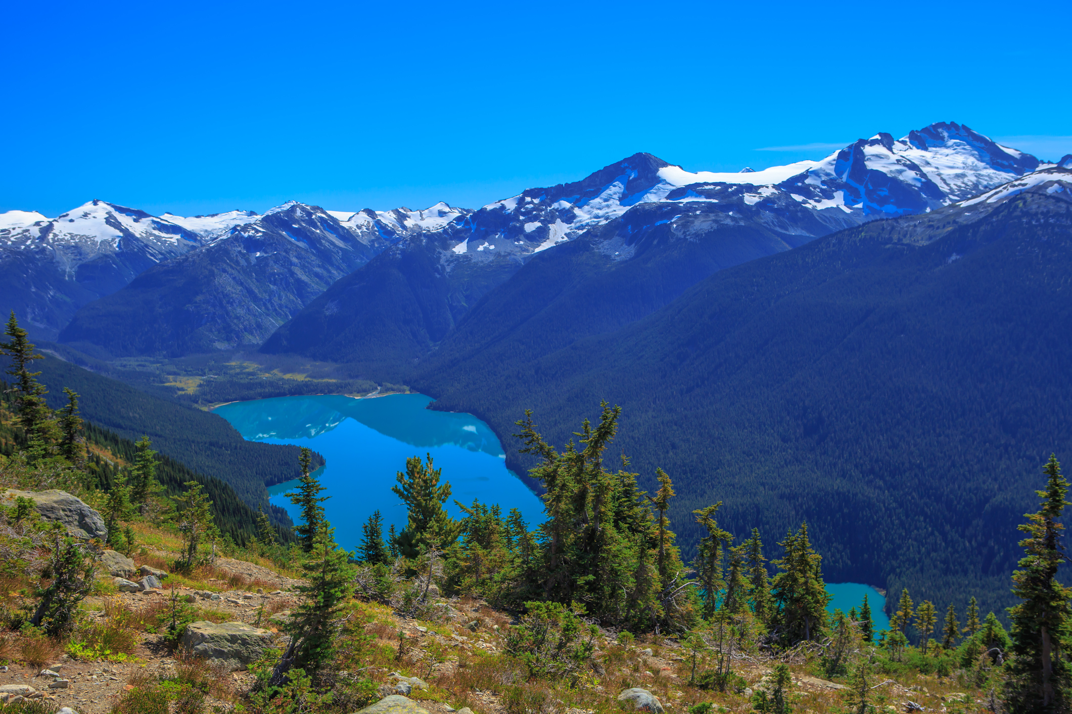 along the High note trail atop Whistler Mtn.